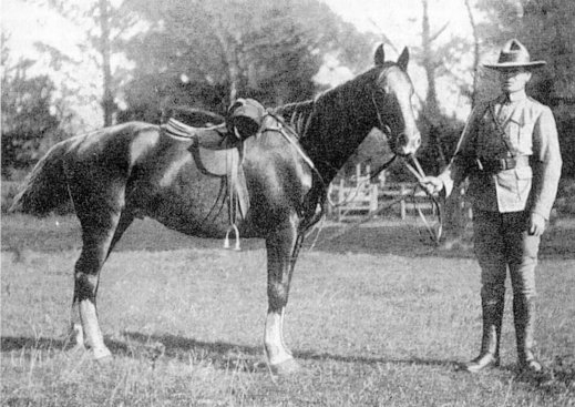 George Ramsdale Witton (1874–1942): "Lieutenant G.R. Witton, as he appeared when he was attached to the Bushveldt Carbineers in 1901". Note that the photograph of Witton standing beside his horse clearly verifies the fact that he was more than six foot tall (183 cm). Taken from Copeland, H., "A Tragic memory of the Boer War, The Argus Week-end Magazine, (Saturday, 11 June 1938), p.6.